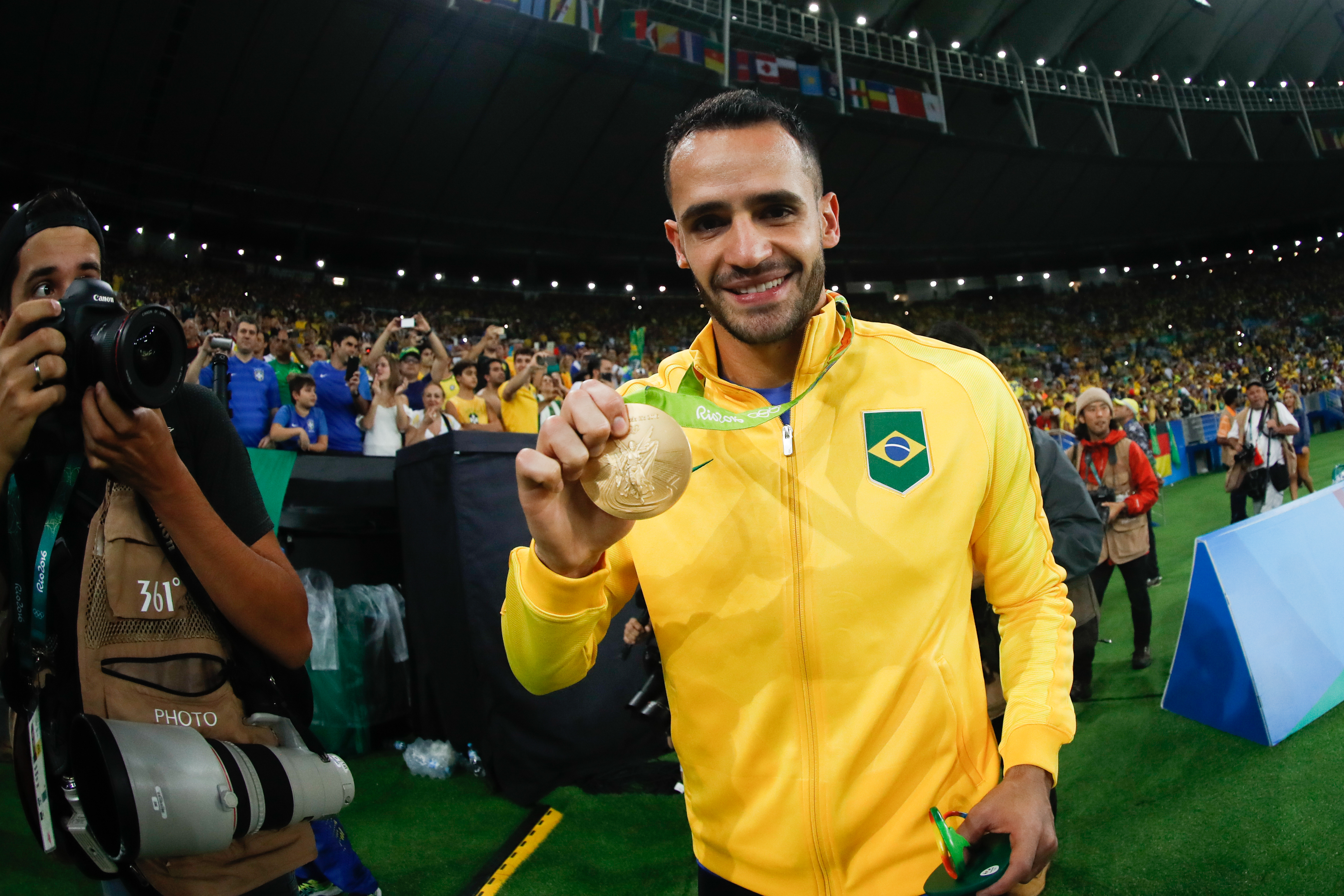 Rio de Janeiro - Brasil vence Alemanha e conquista primeiro ouro olímpico do futebol (Fernando Frazão/Agência Brasil)